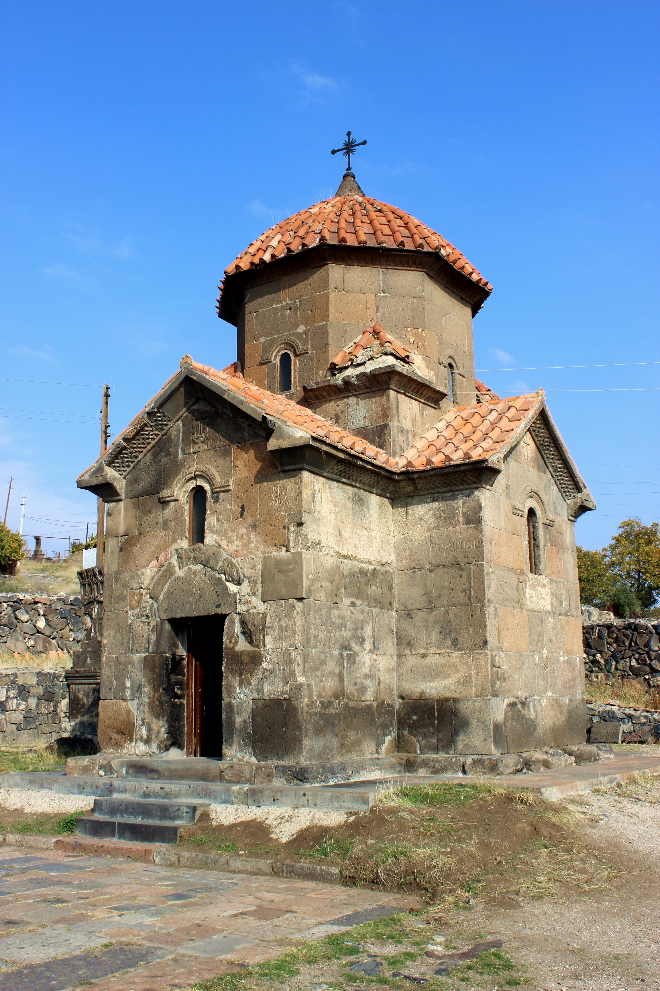 Karmravor Church of Ashtarak, corner view